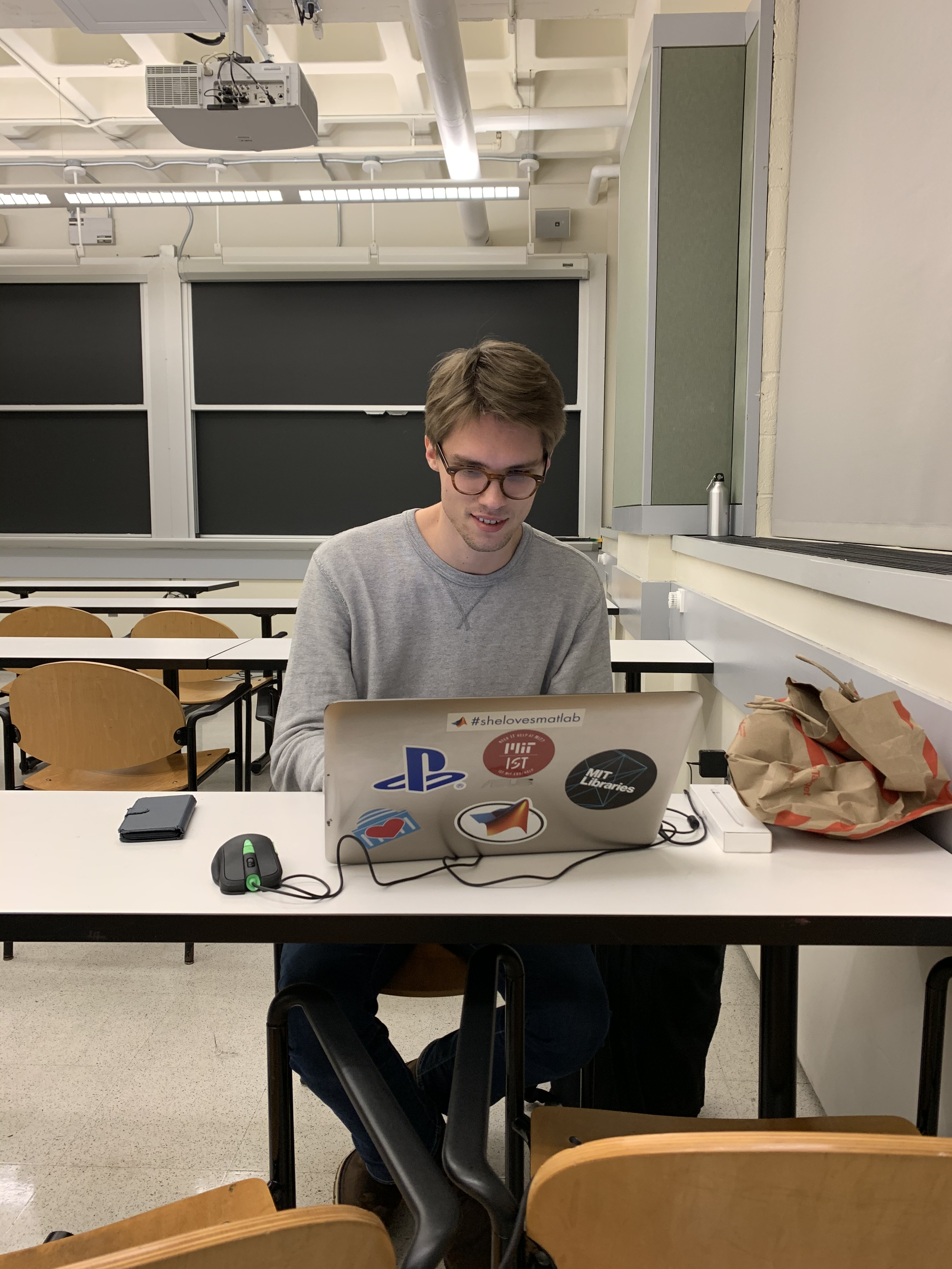 Norwegian student at a group meeting at a United States research school.